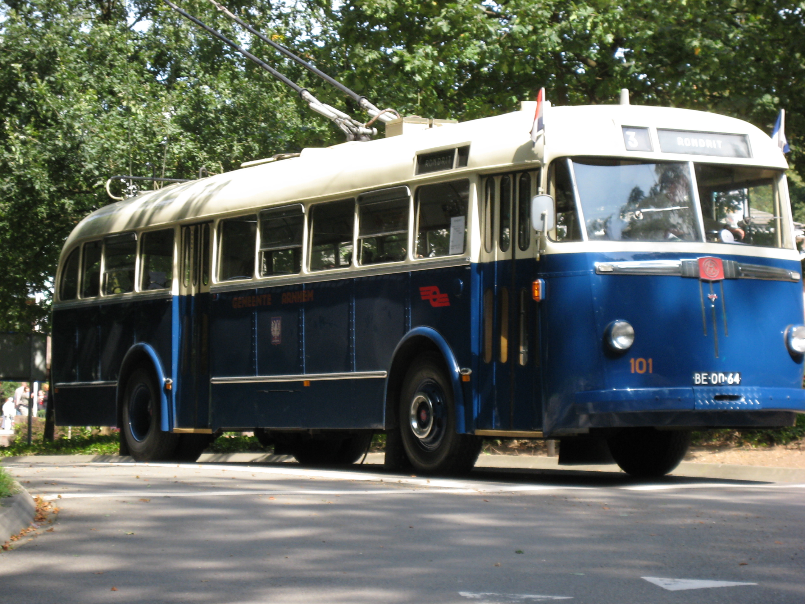 Trolleybus 101 in Arnhem, Netherlands, is a Verheul-bodied BUT trolleybus built in 1949. It has been preserved in operating condition.